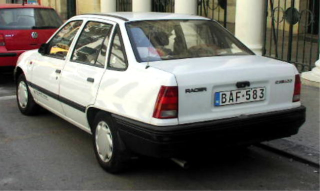 Daewoo Racer